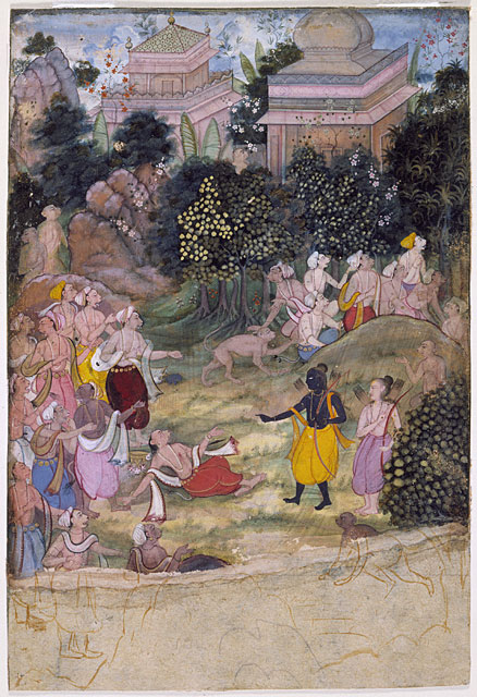 Folio from a Ramayana (Adventures of Rama)